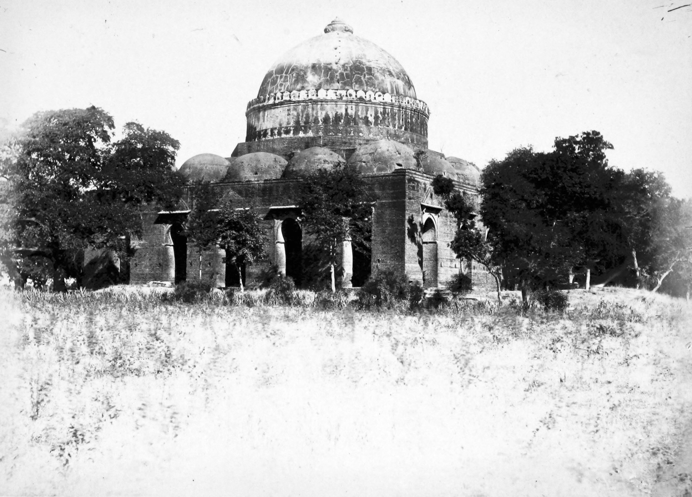 Image taken from: Title: "Architecture at Ahmedabad, the Capital of Goozerat, photographed by Colonel Biggs, ... With an historical and descriptive sketch, by T. C. H., ... and architectural notes by J. Fergusson, etc" Author: HOPE, Theodore Cracraft - Sir, K.C.S.I Contributor: BIGGS, Thomas. Contributor: FERGUSSON, James - Architect Shelfmark: "British Library HMNTS 10057.f.17.", "British Library OC V 6665" Page: 241 Place of Publishing: London Date of Publishing: 1866 Issuance: monographic Identifier: 001730119 Note: The colours, contrast and appearance of these illustrations are unlikely to be true to life. They are derived from scanned images that have been enhanced for machine interpretation and have been altered from their originals. If you wish to purchase a high quality copy of the page that this image is drawn from, please order it here. Please note that you will need to enter details from the above list - such as the shelfmark, the page, the book's volume and so on - when filling out your order. Following this or the link above will take you to the British Library's integrated catalogue. You will be able to download a PDF of the book this image is taken from, as well as view the pages up close with the 'itemViewer'. Click on the 'related items' to search for the electronic version of this work. Click here to see all the illustrations in this book and click here to browse other illustrations published in books in the same year. Please click on the tags shown on the right-hand side for other ways to browse the illustrations.